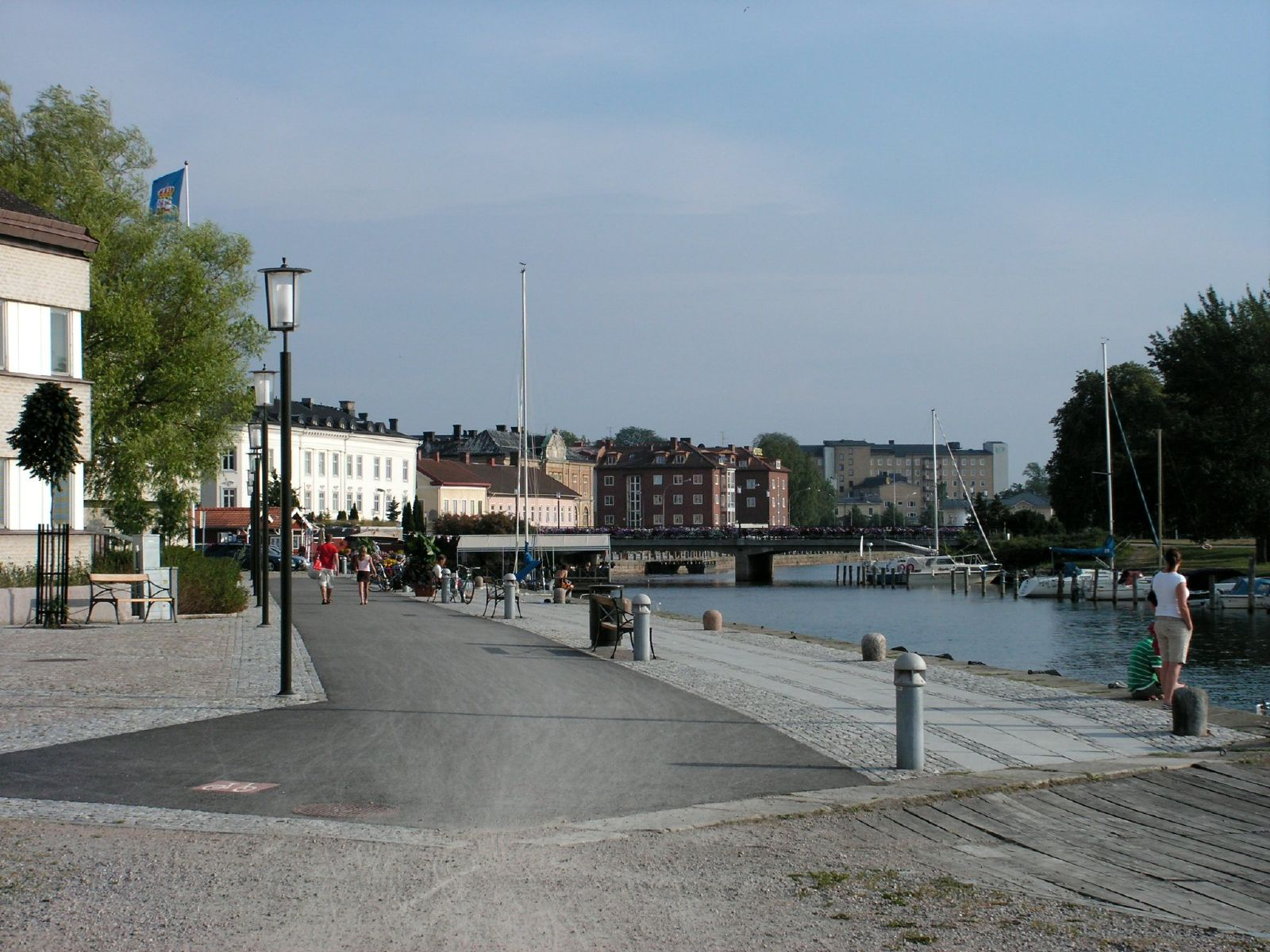 Looking at the city of Vänersborg from Skräckleparken.